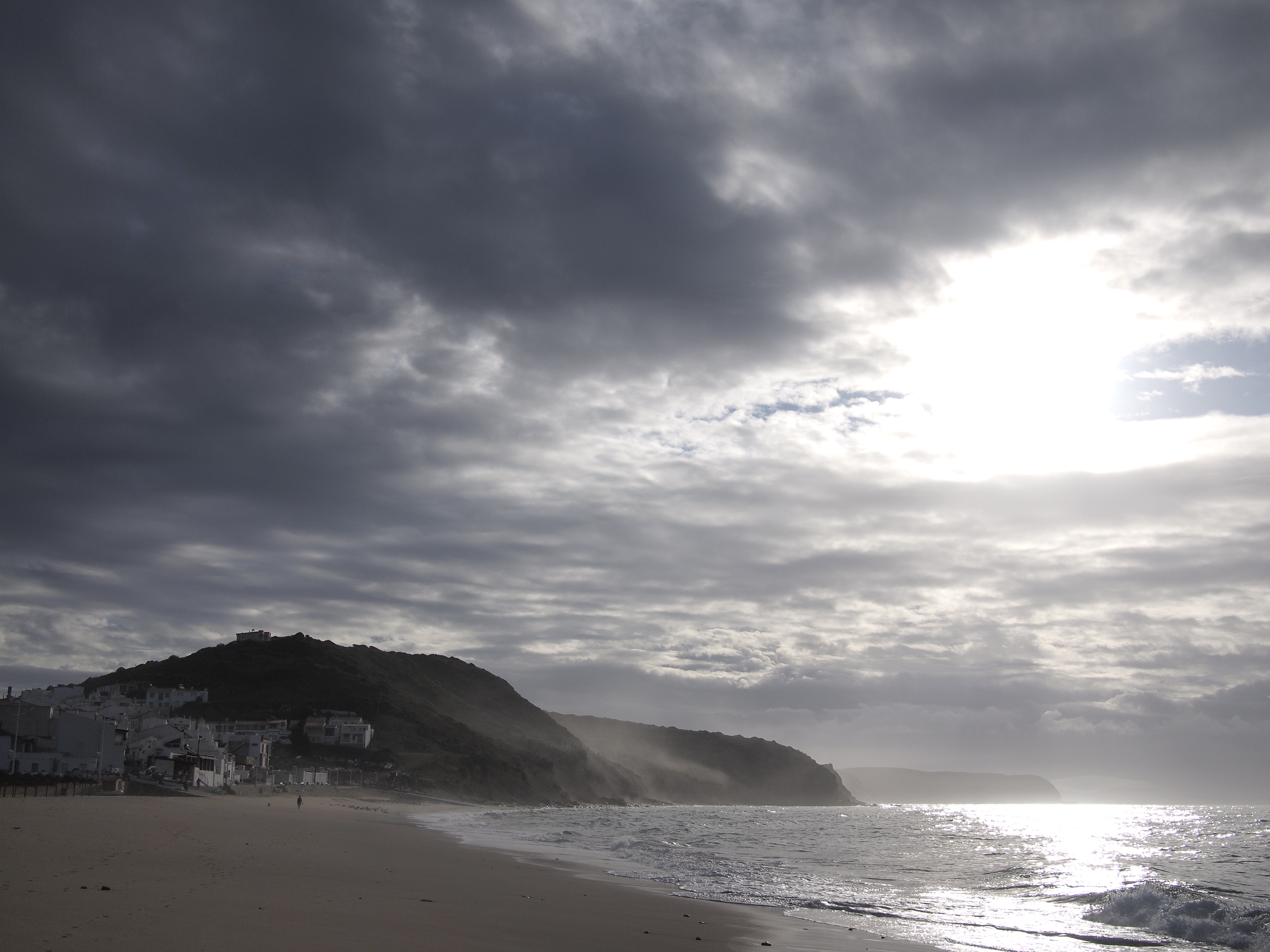 Salema Beach, Algarve, Portugal in September 2011